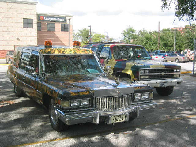 Venus Hearse (1975 Cadillac Miller Meteor conversion) - seen with the Montrose Patriot art vehicle